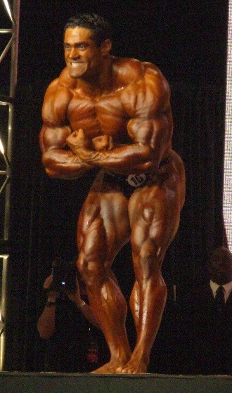 Image of professional bodybuilder Gustavo Badell posing